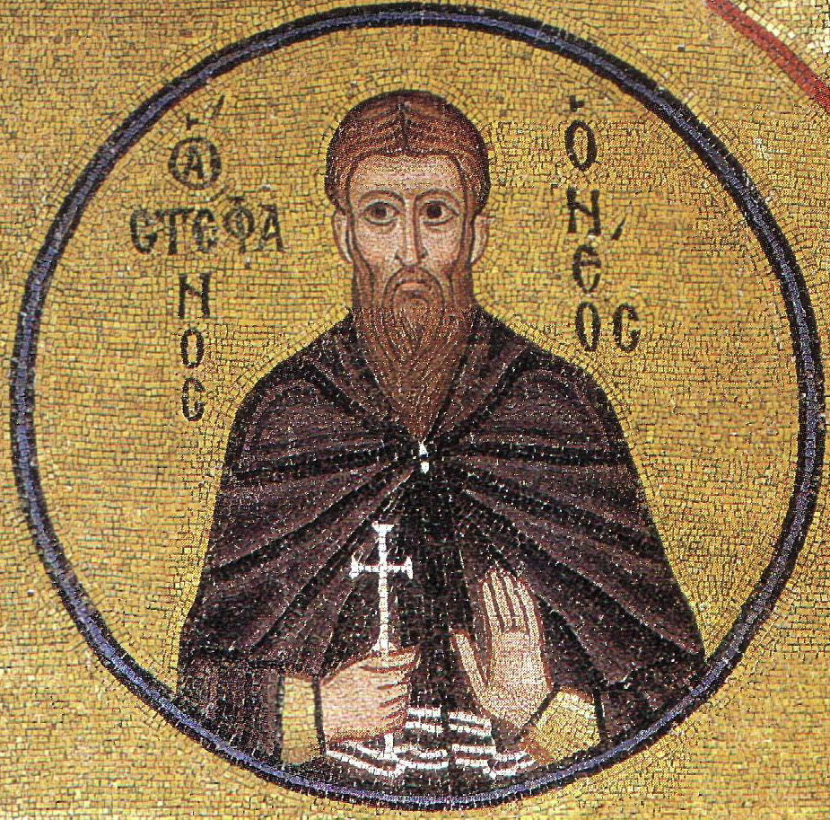 Hosios Loukas Monastery, Boeotia, Greece